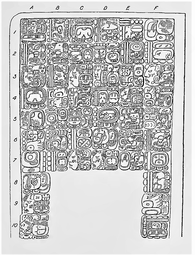 The text below shows : "Maya inscription from Piedras Negras. (The glyphs are read downwards in double columns from left to right.)"